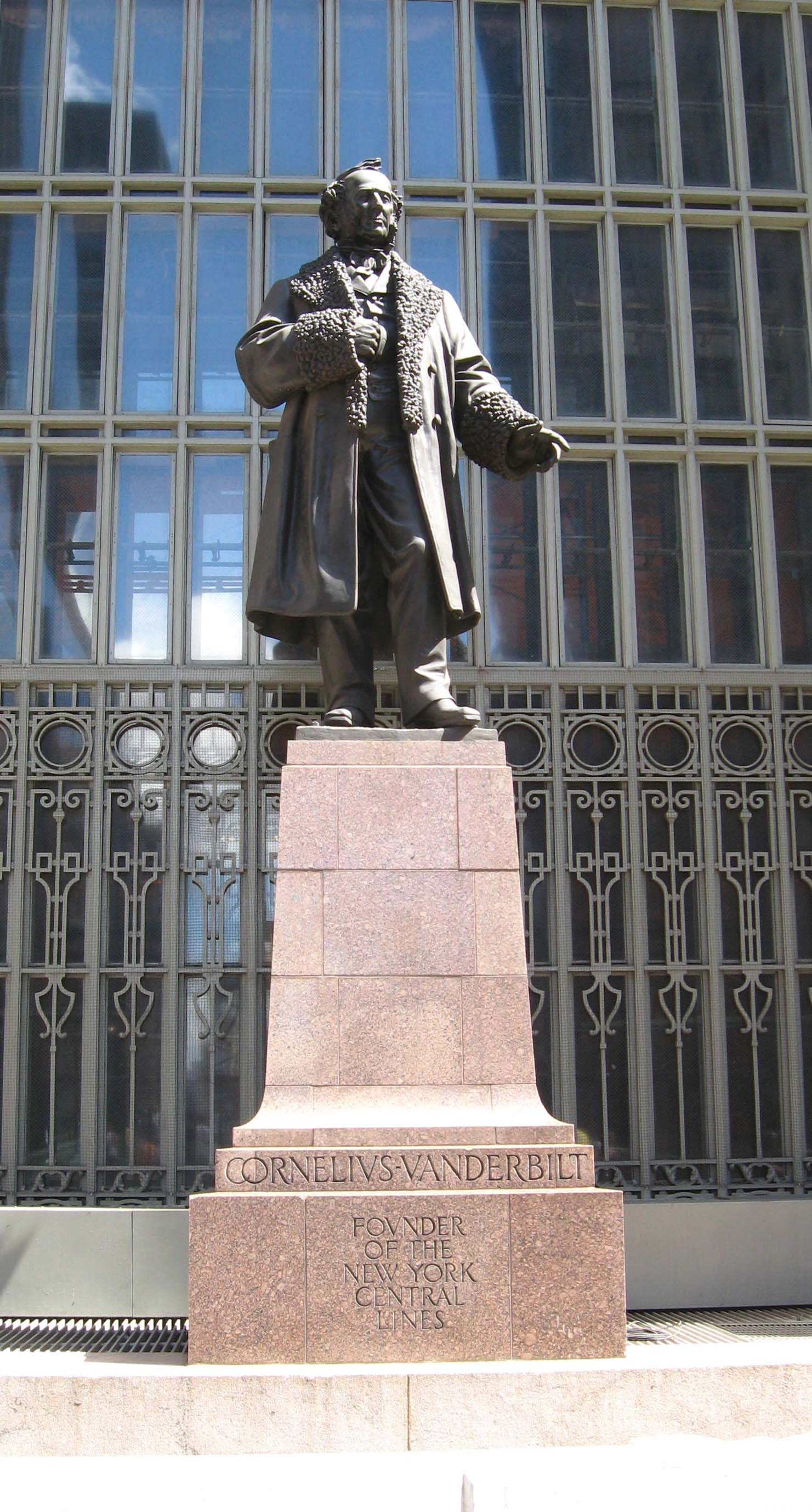 Looking north at statue of Cornelius Vanderbilt at the head of the ramp to Grand Central Terminal on a sunny late morning